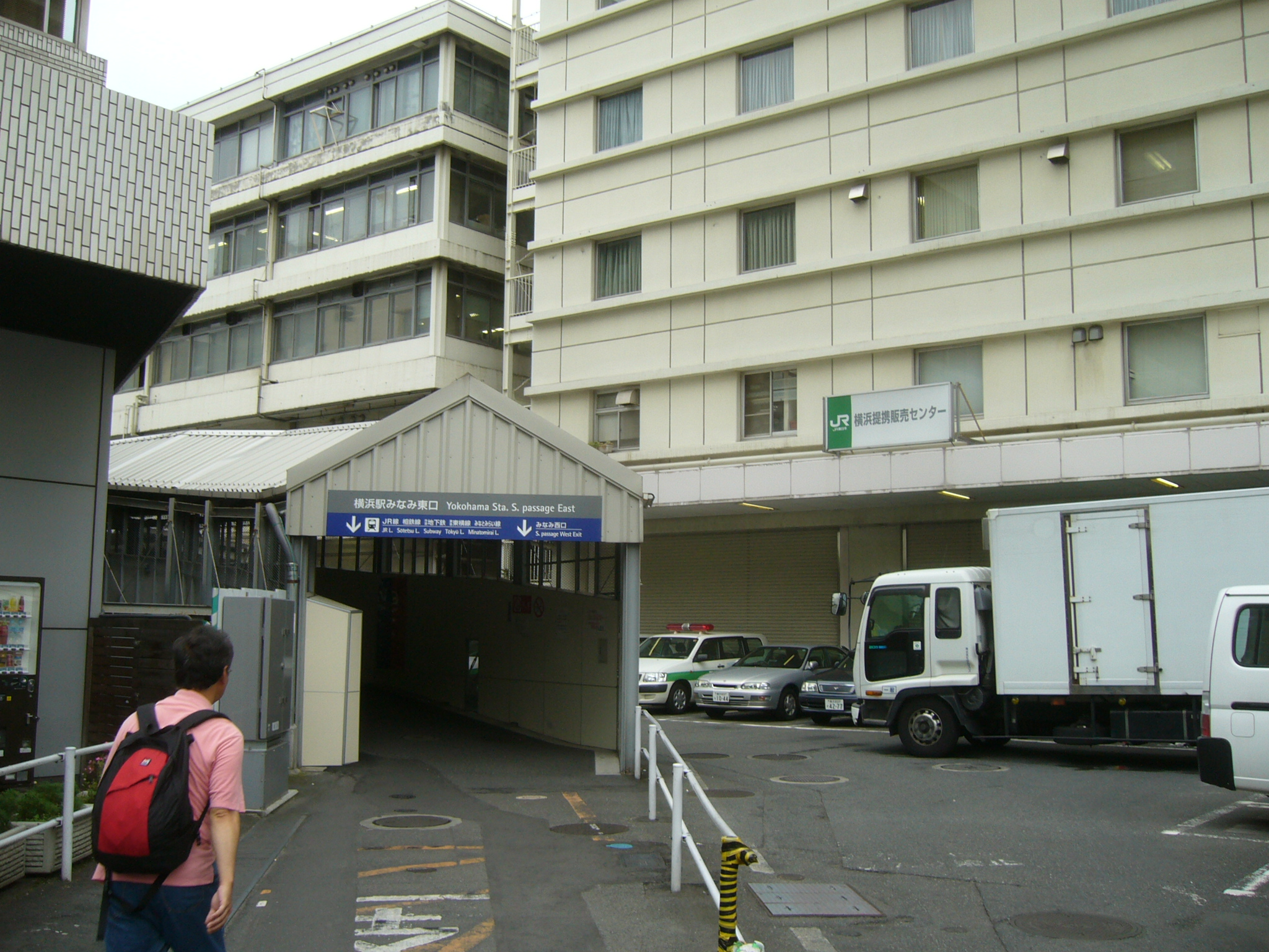 S.East exit of Yokohama station.